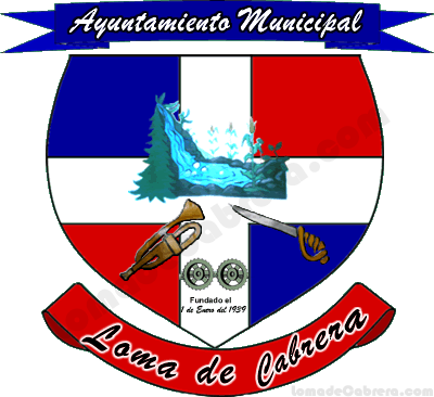 This is Loma de Cabrera Shield...